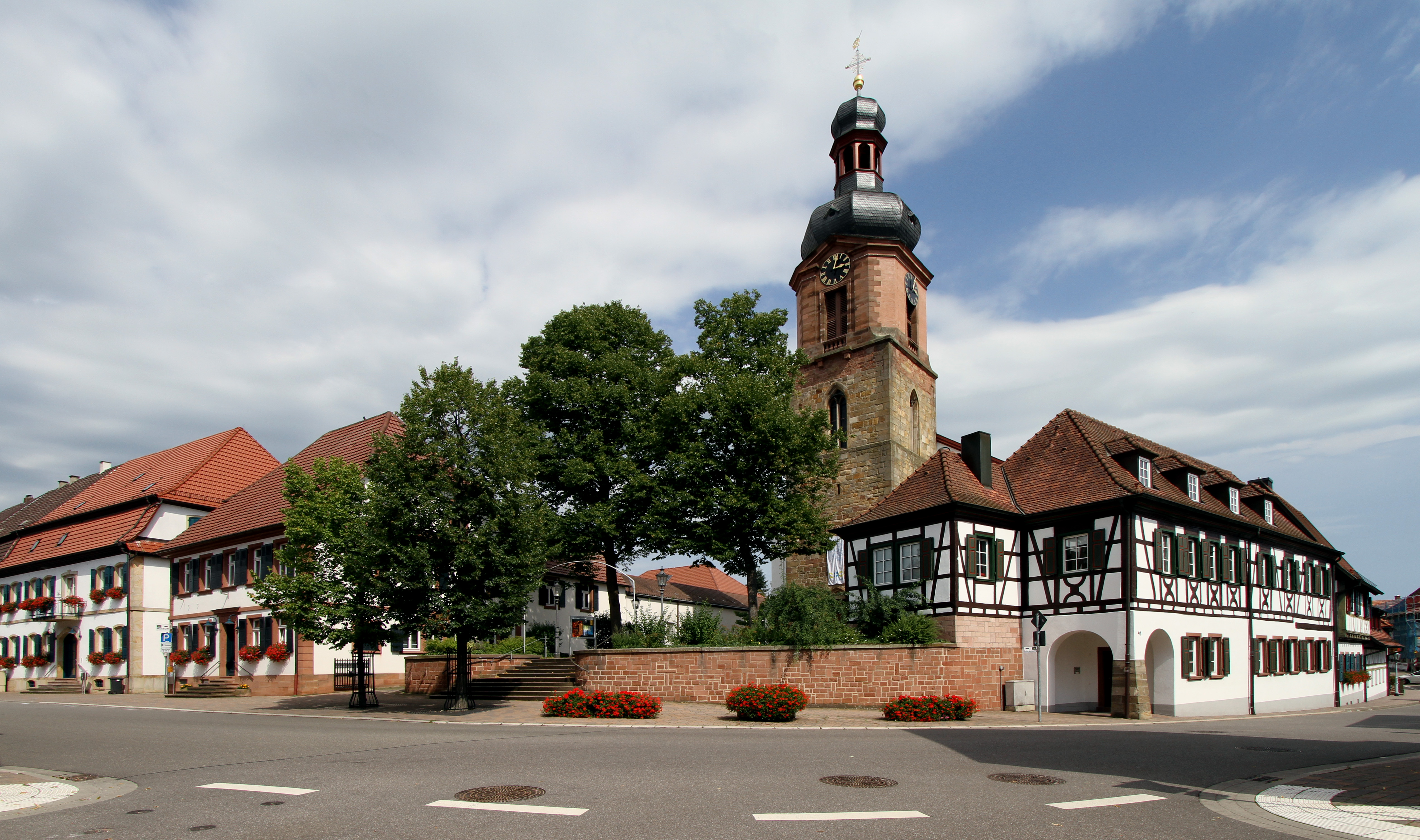 Cultural heritage monument in Rheinzabern